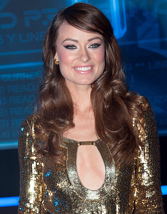 Olivia Wilde at the Tron: Legacy Premiere 2010.